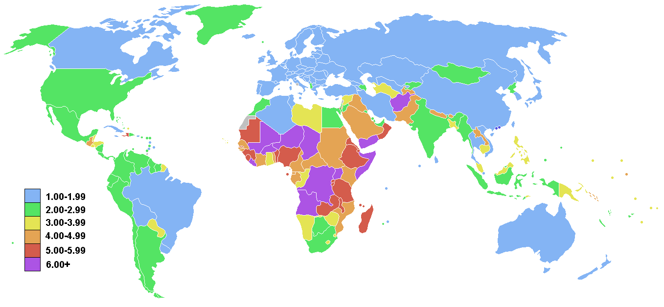 countries fertility rate as listed at List of countries and territories by fertility rate See also: Image:Fertility rate world map 2.png